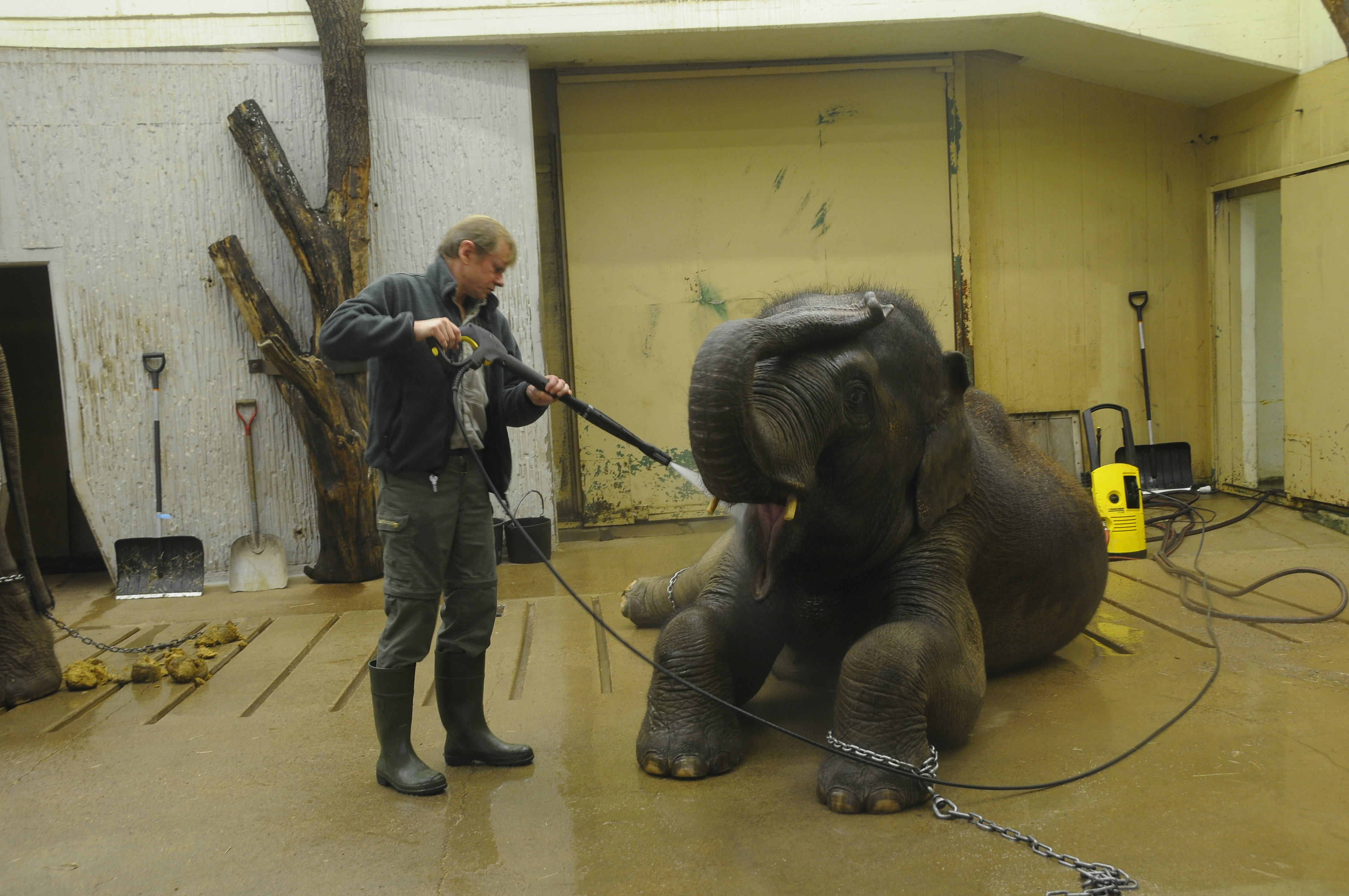 King Carl XVI Gustaf of Swedens elephant Bua, washed by elephant trainer Dan Koehl, Kolmarden Zoo, 2008